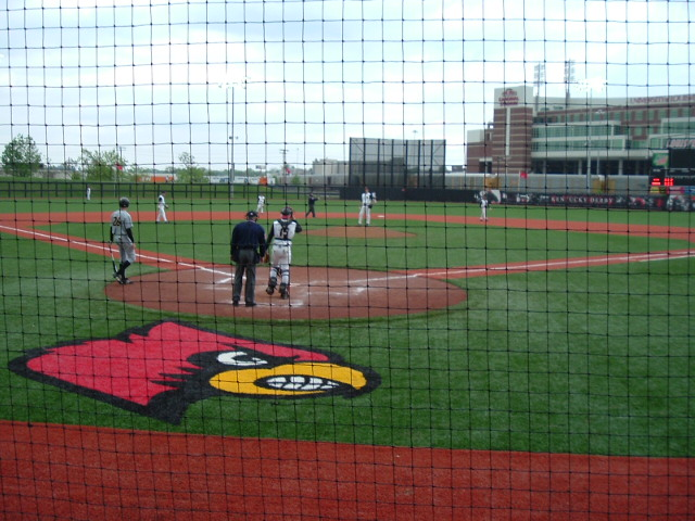 Jim Patterson Stadium's batter's box, viewed from behind the protective netting. Taken by the uploader, Censusdata; all rights released.